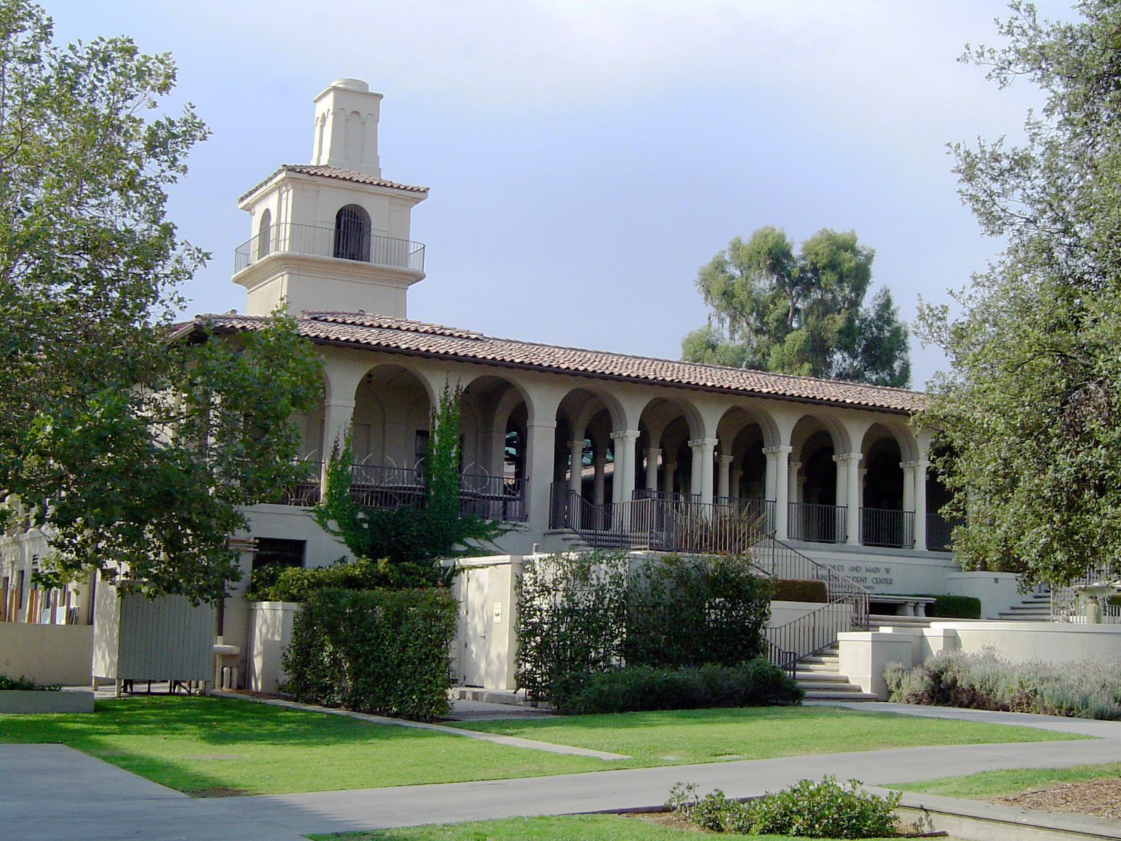 Photographed and uploaded by user:Geographer. Johnston Student Center and Freeman College Union built in 1928 is a center for the social life of the campus, Occidental College, on July 15, 2005.